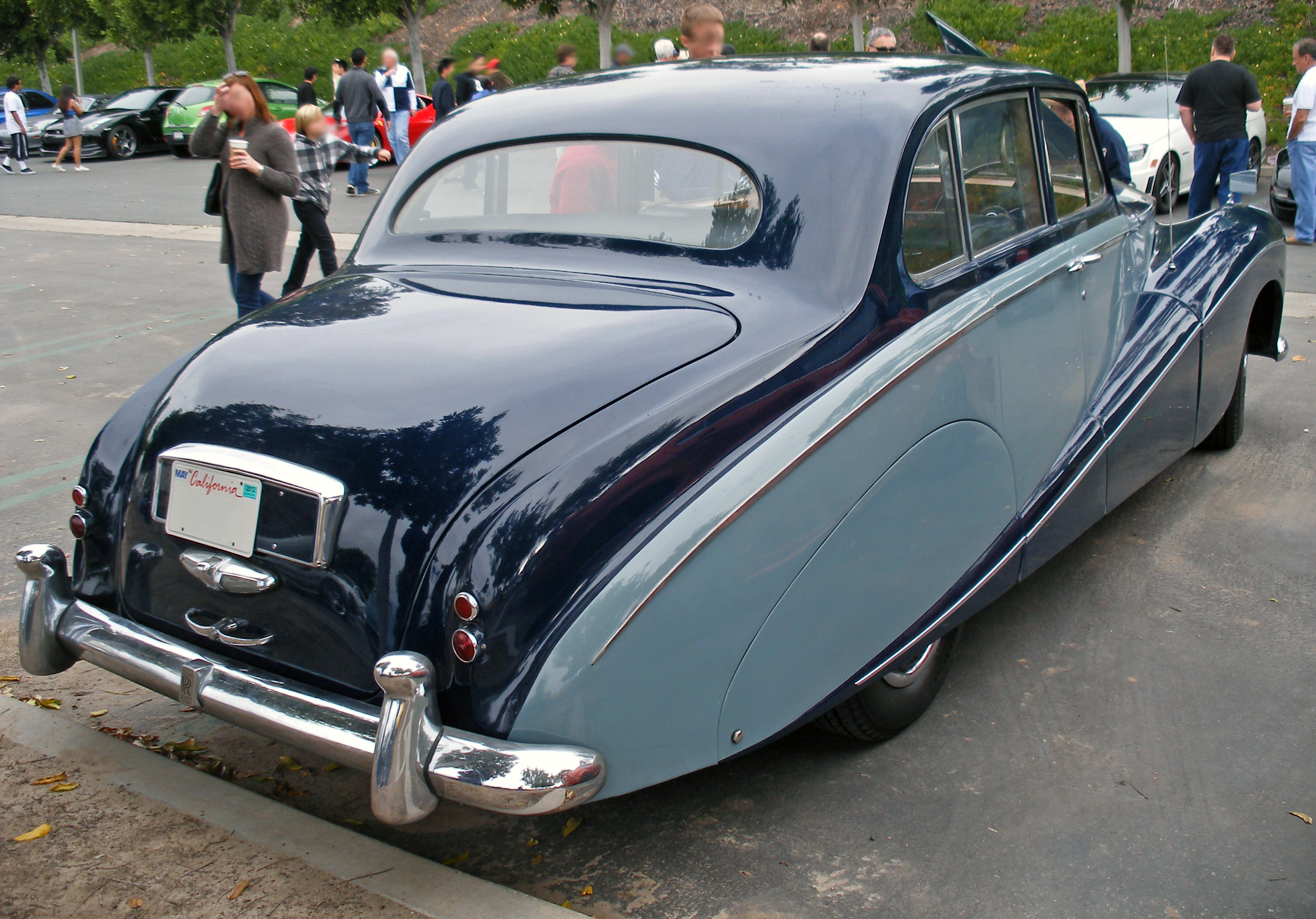 1956 Rolls-Royce Silver Cloud I (#SWA92) Hooper Saloon, one of only 21 built (with this design)